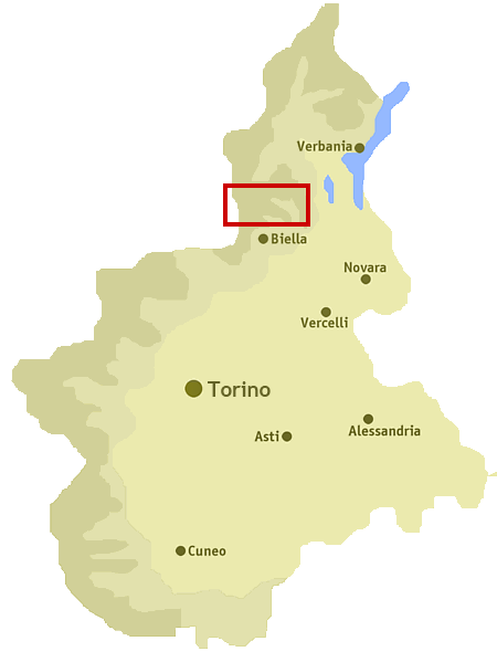 Position of the valley Valsesia